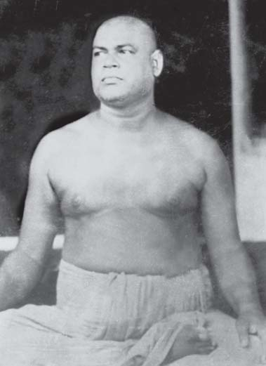 Swami Ramakrishnananda at Madras.